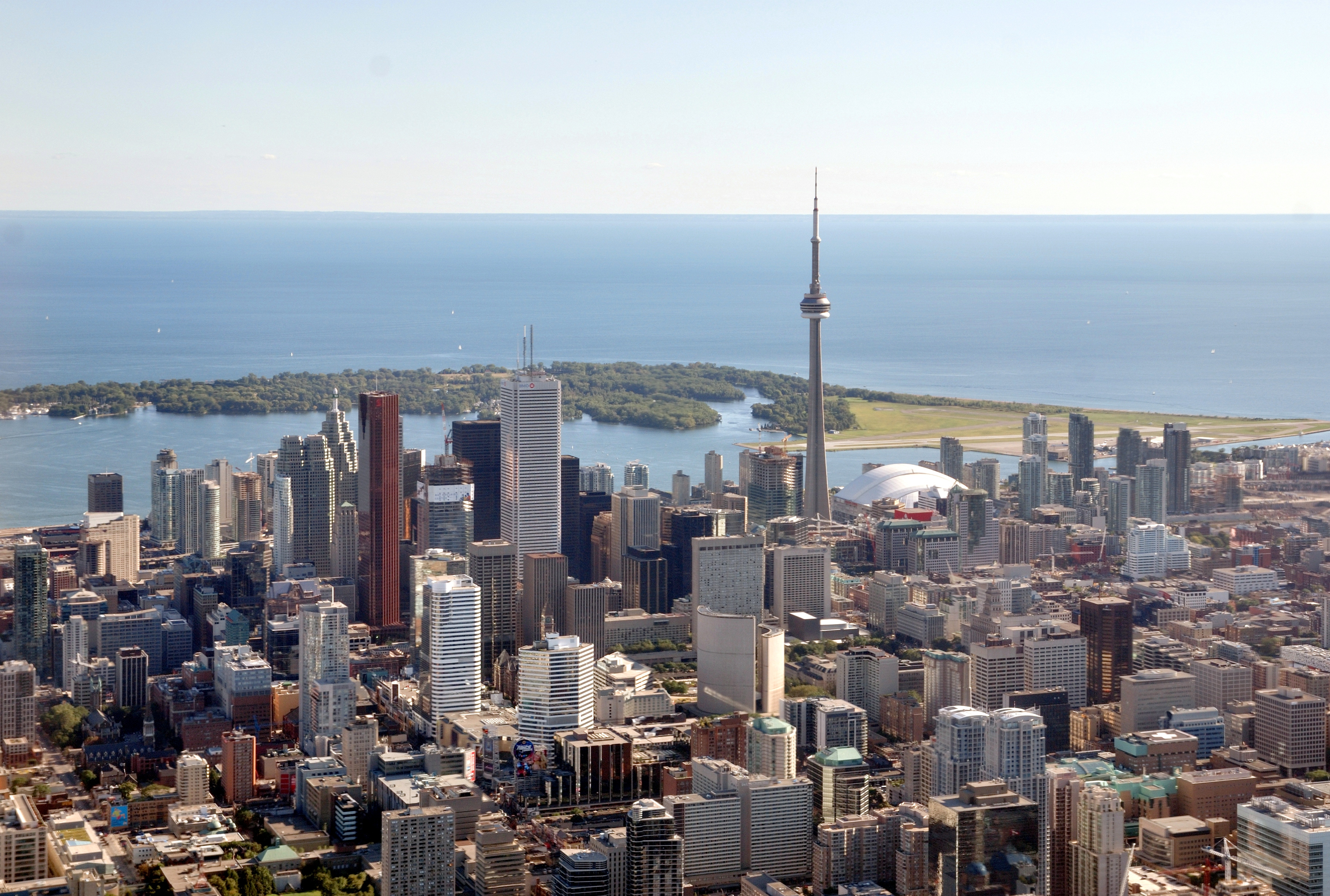 Aerial view of downtown Toronto (from helicopter), with view of Toronto Islands and Lake Ontario in the background.